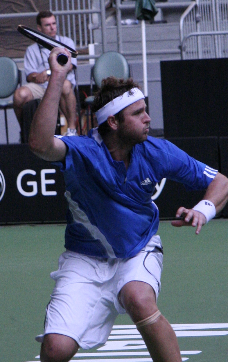 Mardy Fish at his first-round match of the 2007 Australian Open.